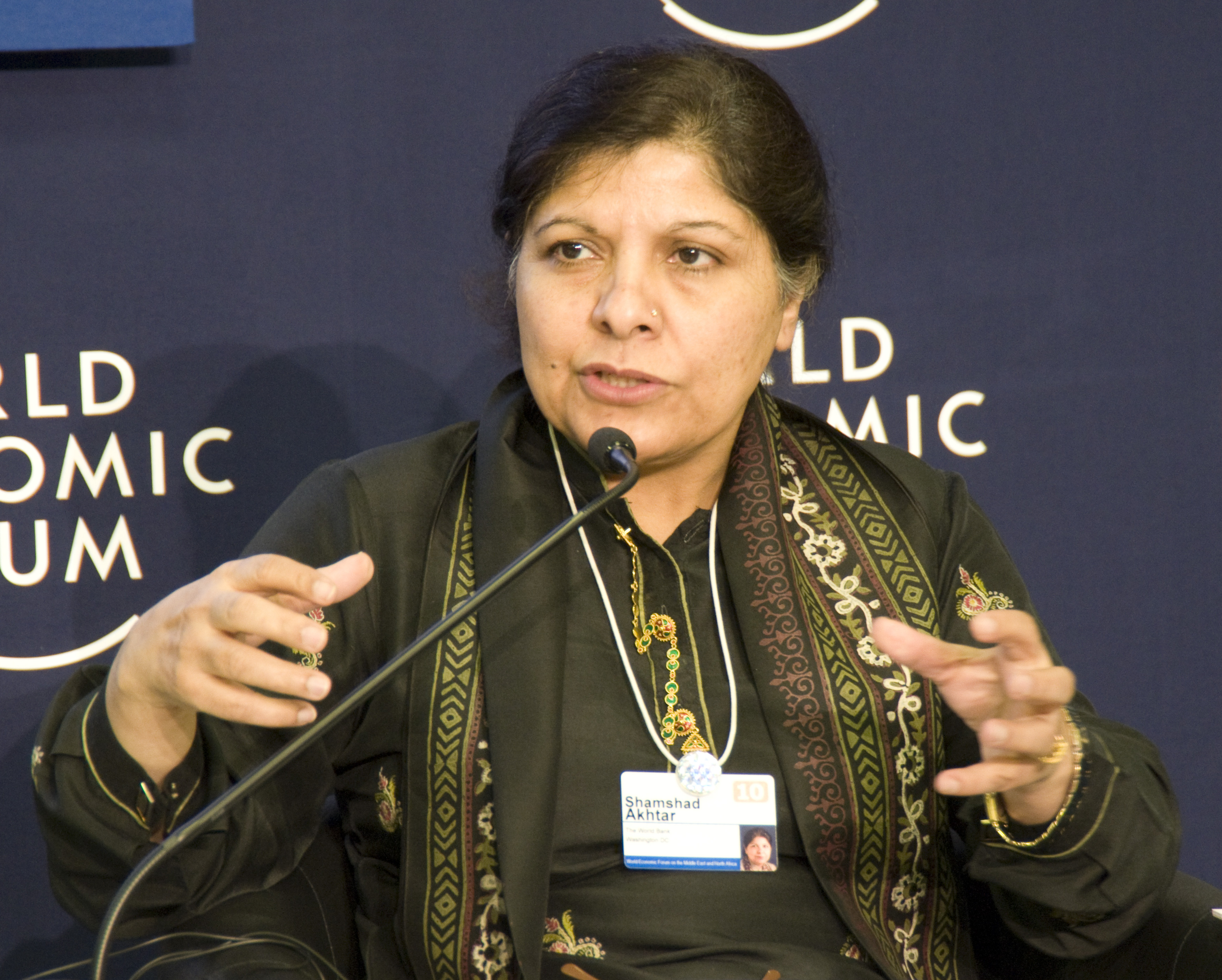 MARRAKECH/MOROCCO, 28OCT10 - Shamshad Akhtar, Regional Vice-President, Middle East and North Africa, World Bank, Washington DC, Food Security A Sustainable Strategy; World Economic Forum on the Middle East and North Africa Marrakech, Morocco, 28 October 2010. Copyright World Economic Forum ( by John Cole/still